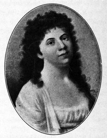 Eleonora Säfström, Swedish actress. Picture published in Volume 1 (of 8) of Nils Personne’s history of Swedish theatre.